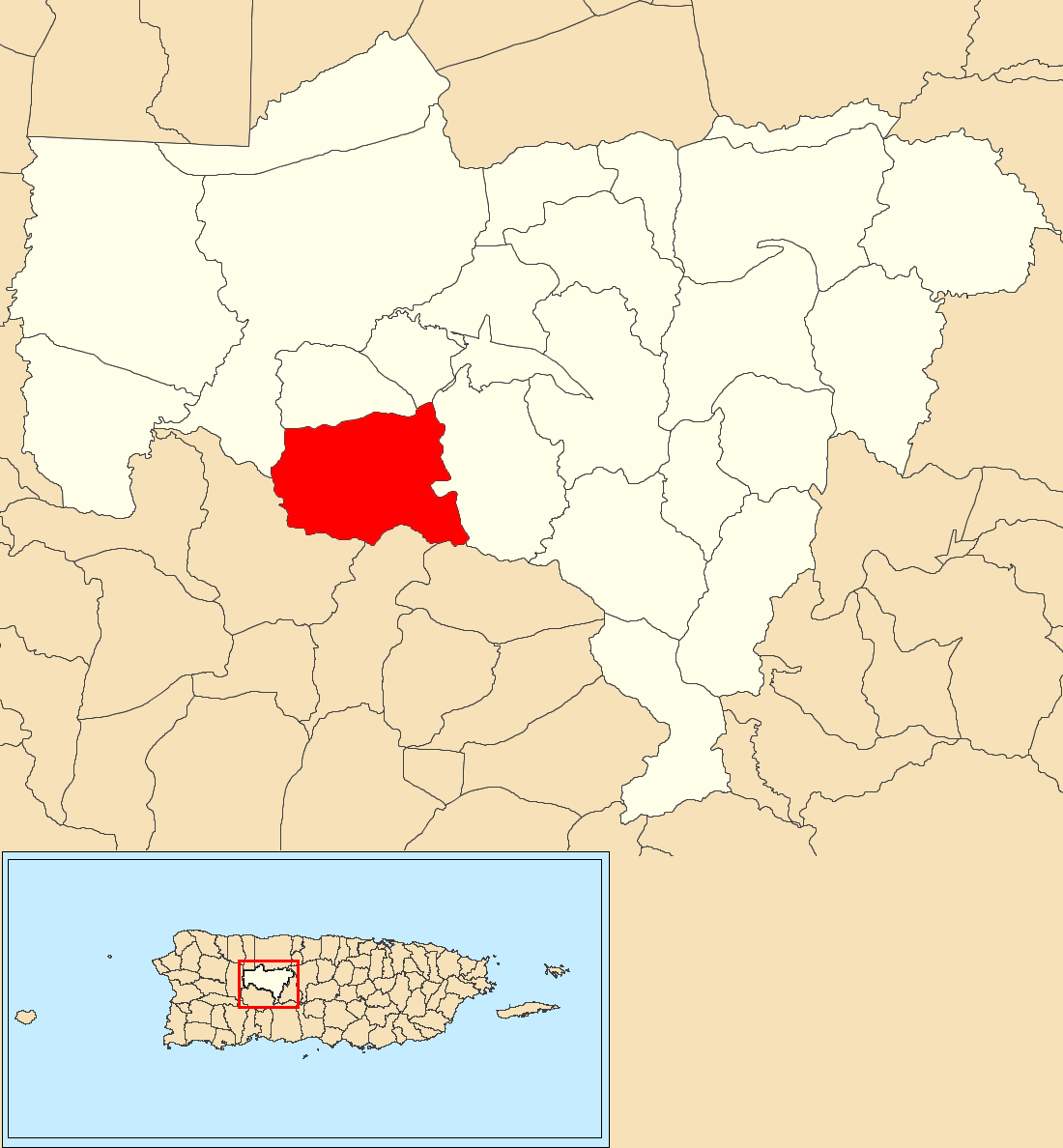 Guaonico, Utuado, Puerto Rico locator map scale is 102,000